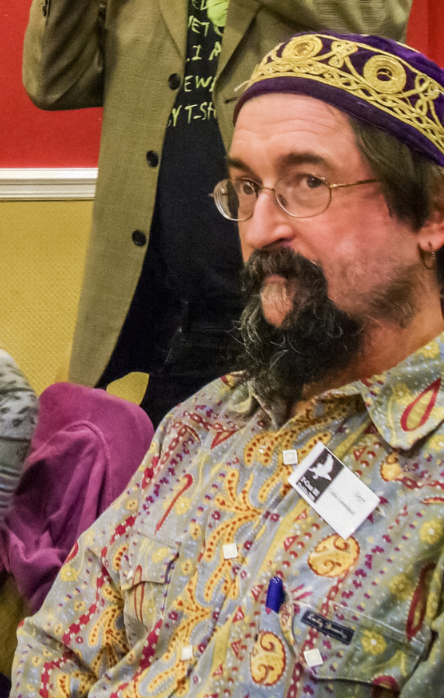 Colin Greenland at P-Con III in Dublin in 2006